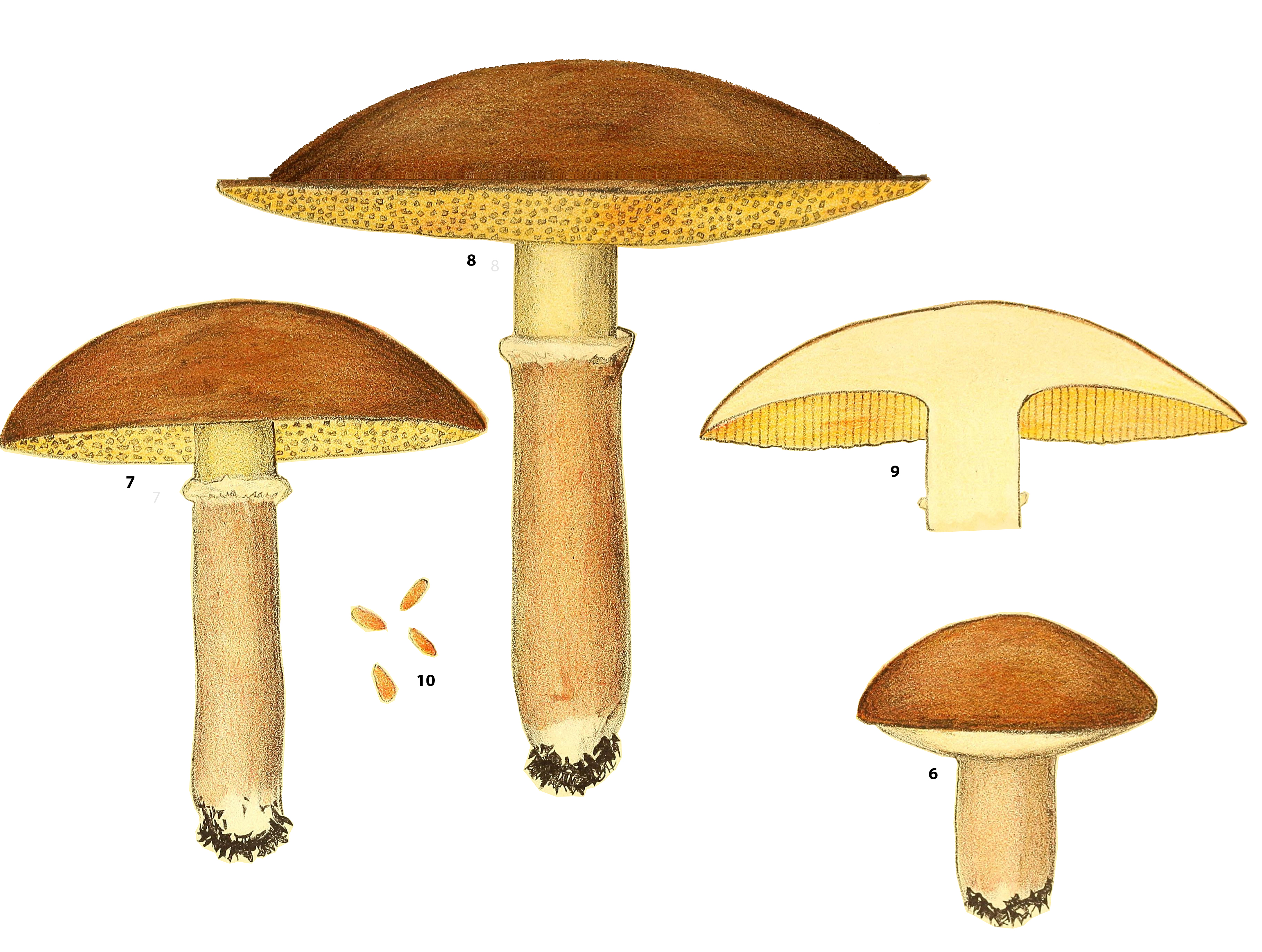 Drawing of Boletus clintonianus Peck (=Suillus clintonianus)